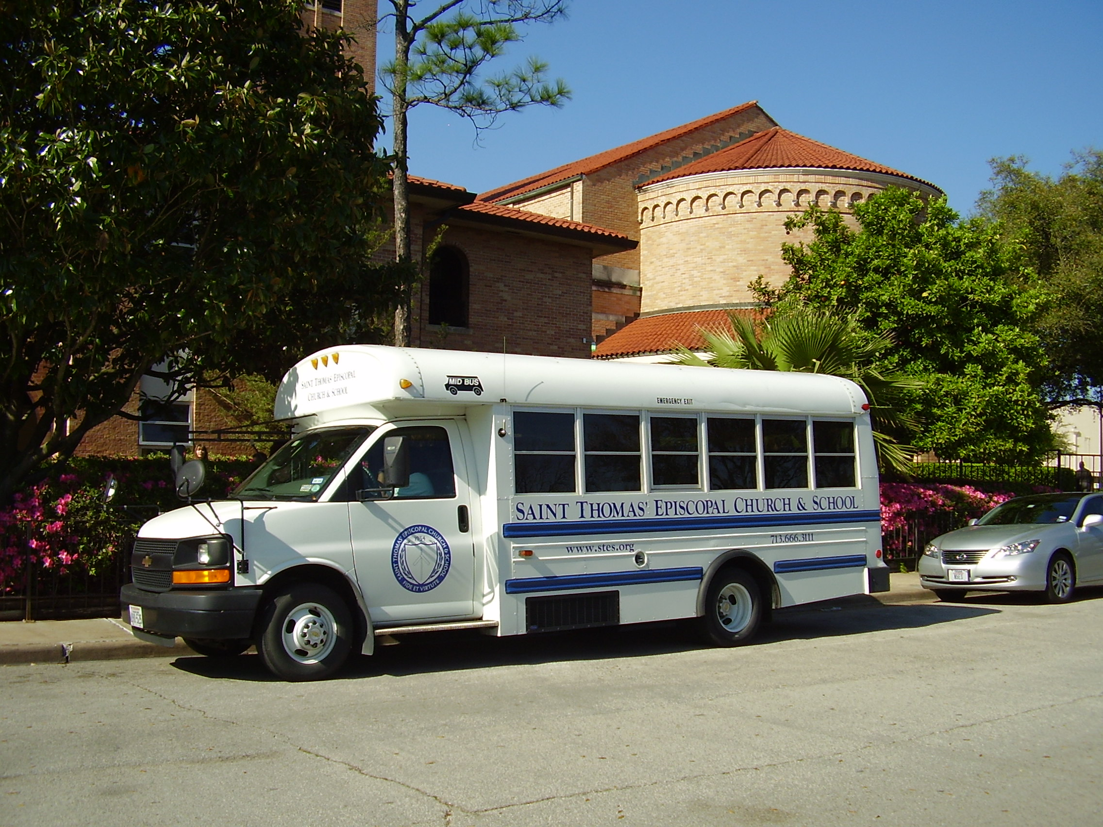 A bus of St. Thomas Episcopal School